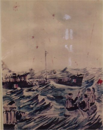 This is a low resolution copy of a drawing. It was created by Hans Helmut Karsch, a member of the crew of Z72 while interned in the Curragh (which dates it to 1944) It was presented by the German Navy to Richard Roche of the MV Kerlogue in May 1994. He, in turn, presented it to the National Maritime Museum of Ireland, where it is on display You are free to distribute this low resolution image. If doing so, please make reference to the Museum.